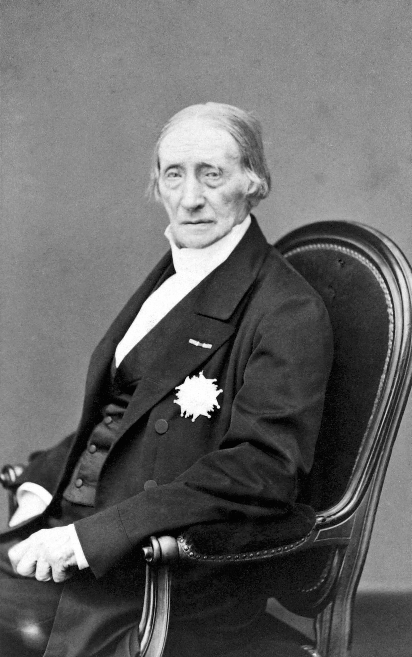 Photograph of Charles Dupin (1784–1873) French mathematician, engineer, economist and politician.